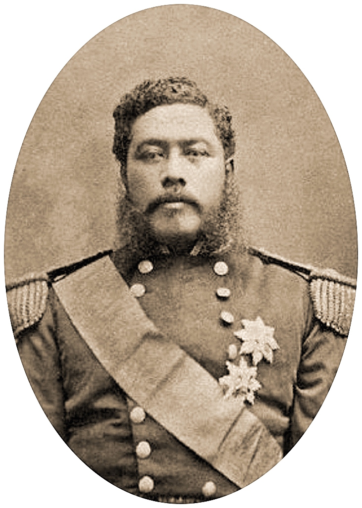 Photograph of King Kalakaua, credited to E. Linde & Co. of Berlin, Germany. Originally possibly by Bradley & Rulofson.